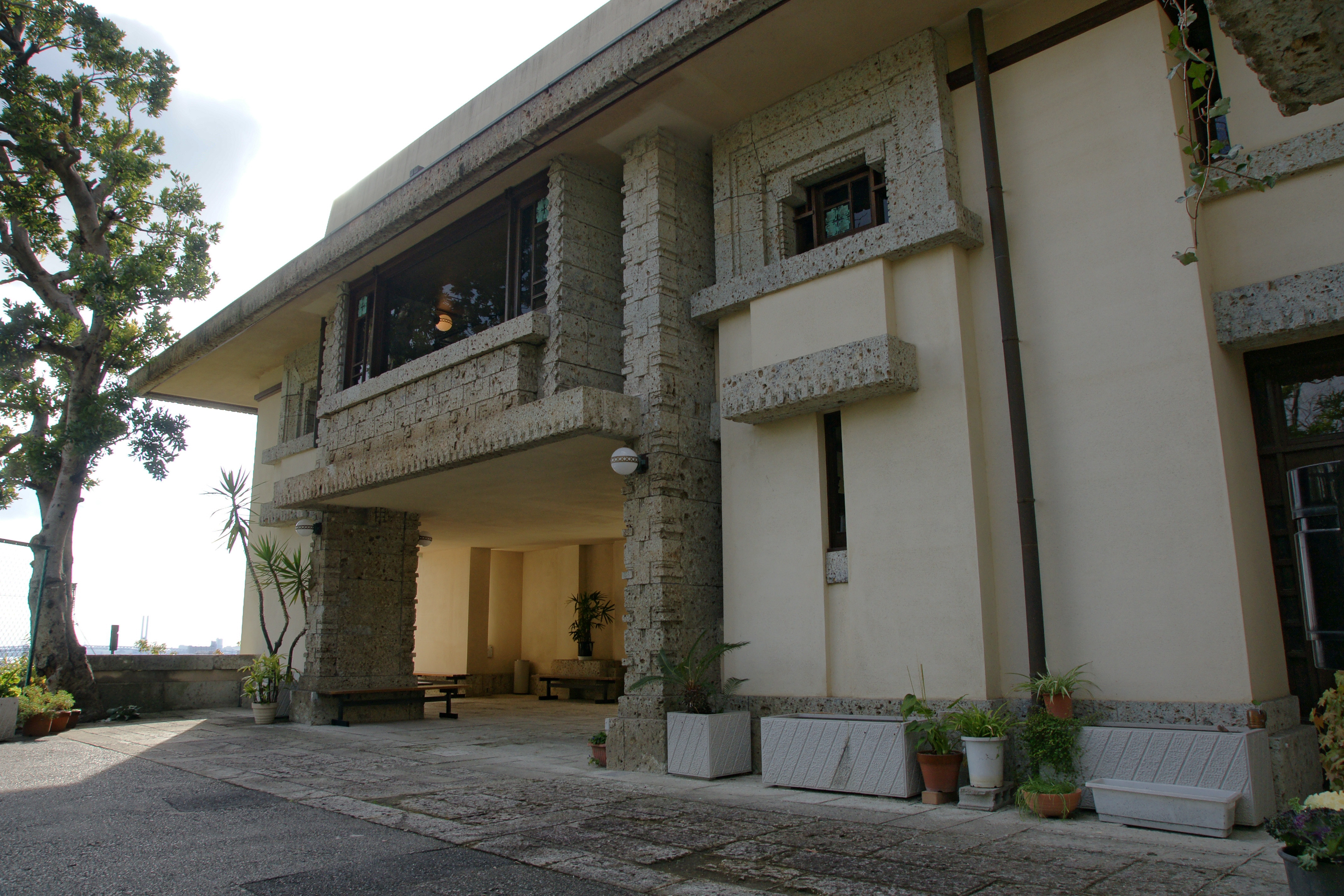 Yodoko Guest House (Yamamura House), Ashiya, Hyogo prefecture, Japan